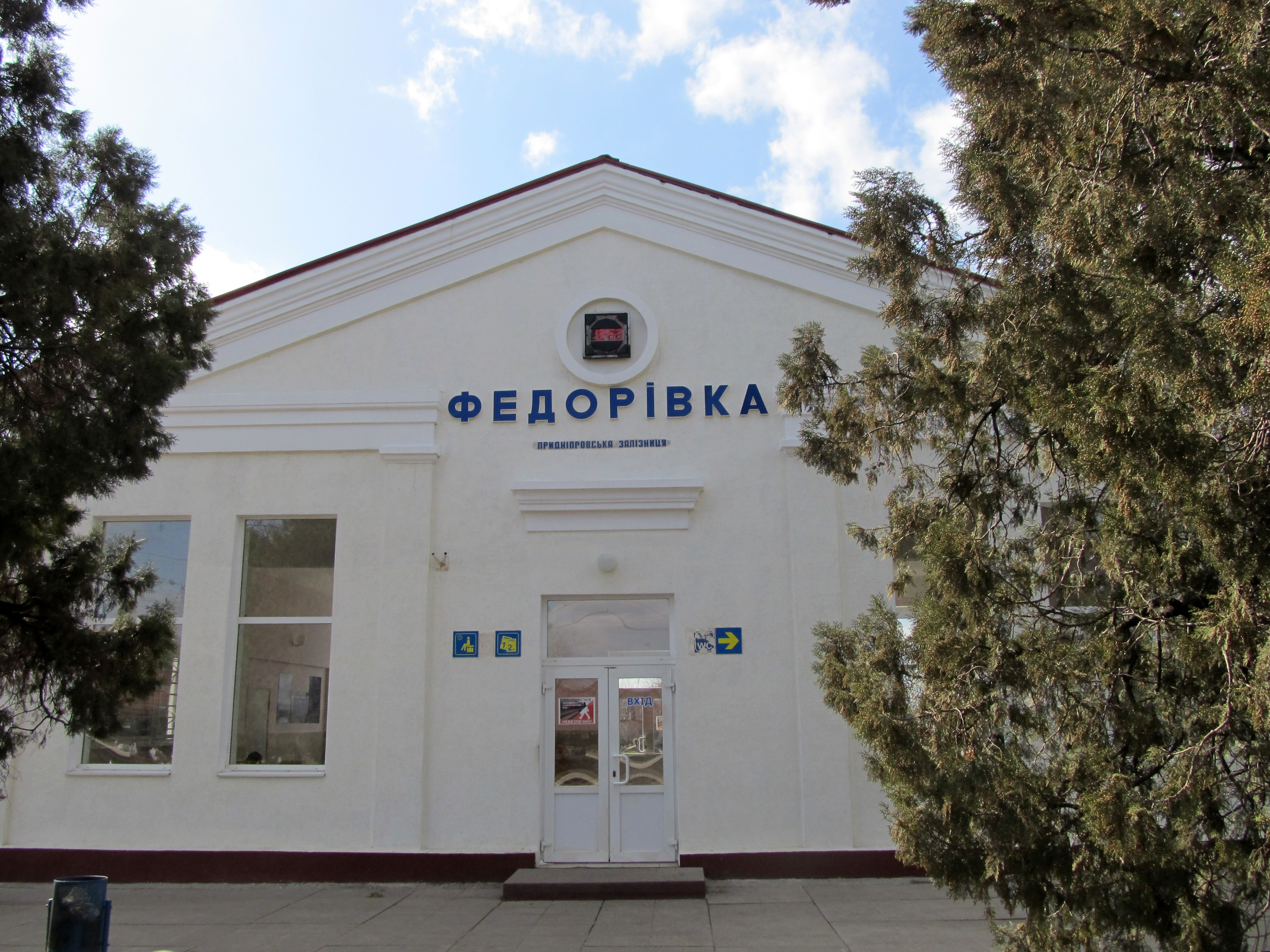 Fedorivka railway station (Novobohdanivka village, Melitopolskyi Raion, Zaporizhia Oblast, Ukraine).